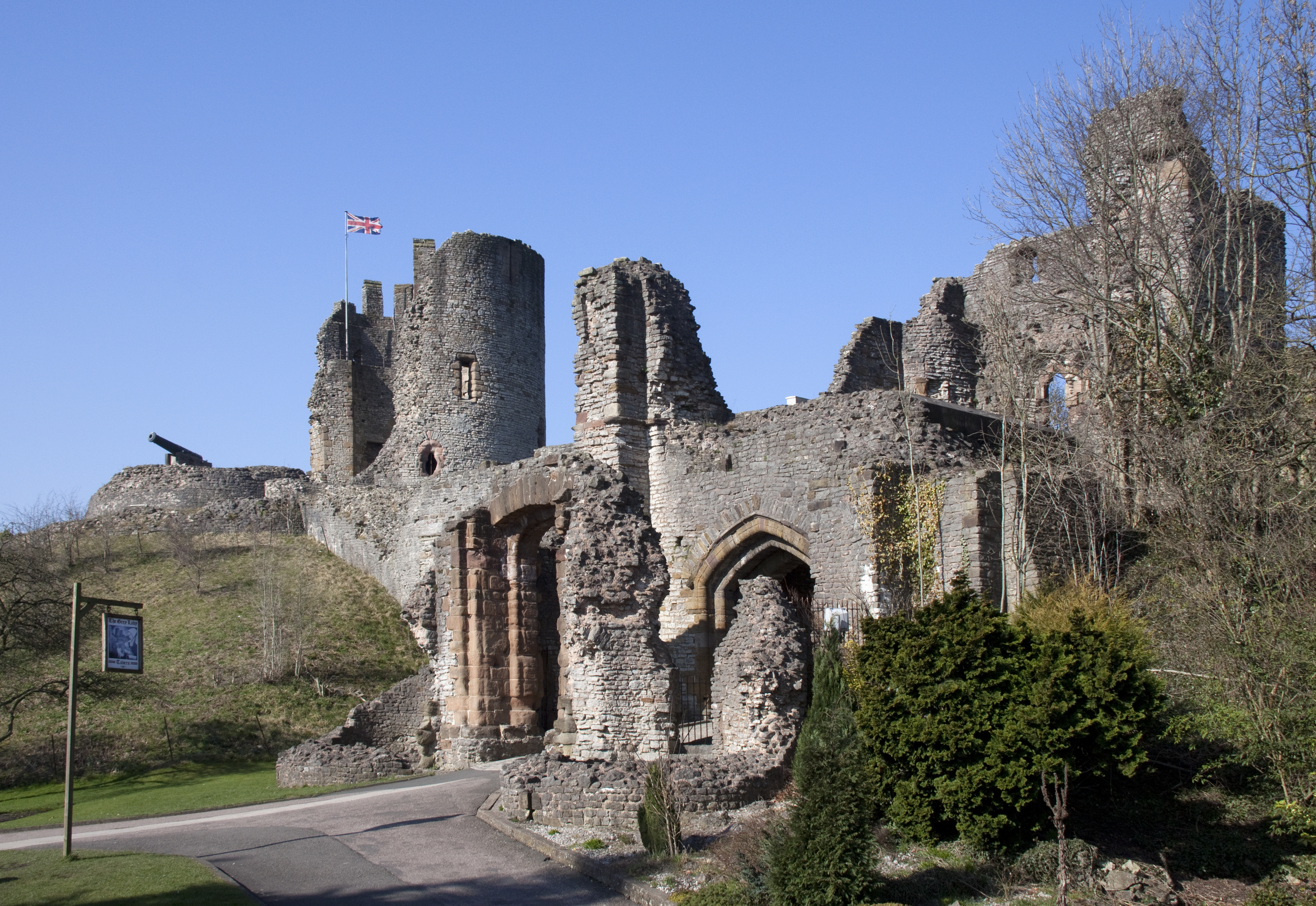 The original castle was built during the 11th Century, but the ruins that remain today were begun in the 13th Century. The destruction of part of the walls and the keep occured during the Civil war in 1646 when Cromwell's forces captured the castle.